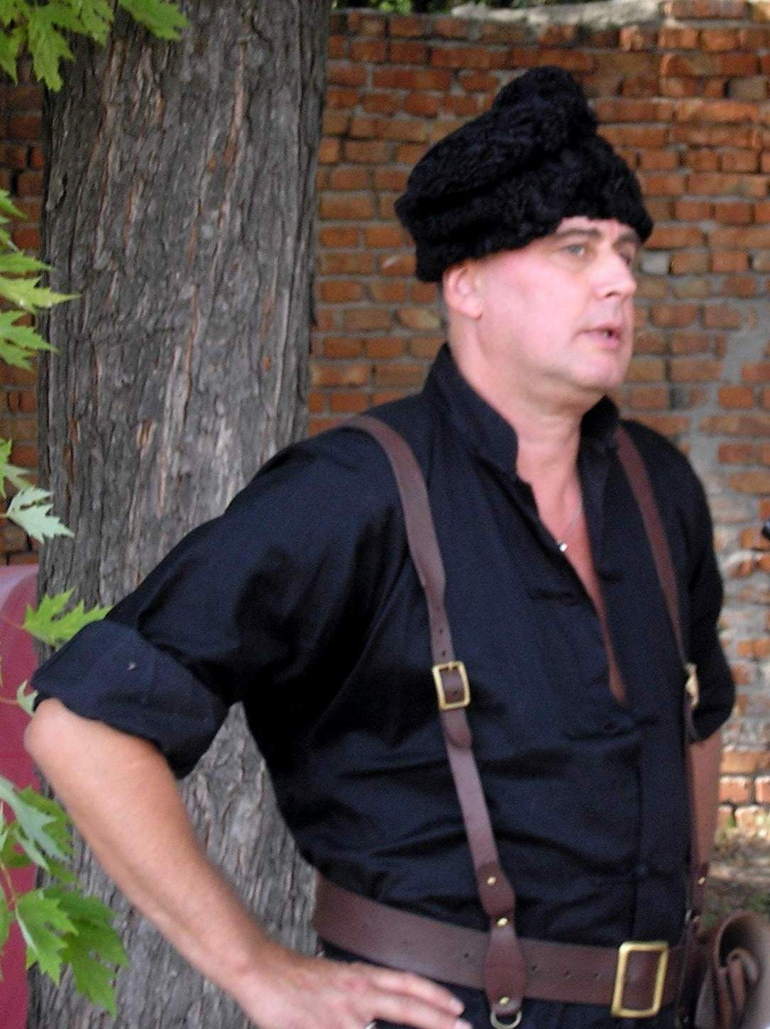 Les Podervyansky in anarchist suit on festival in Hulyai Pole. 24 august, 2006.